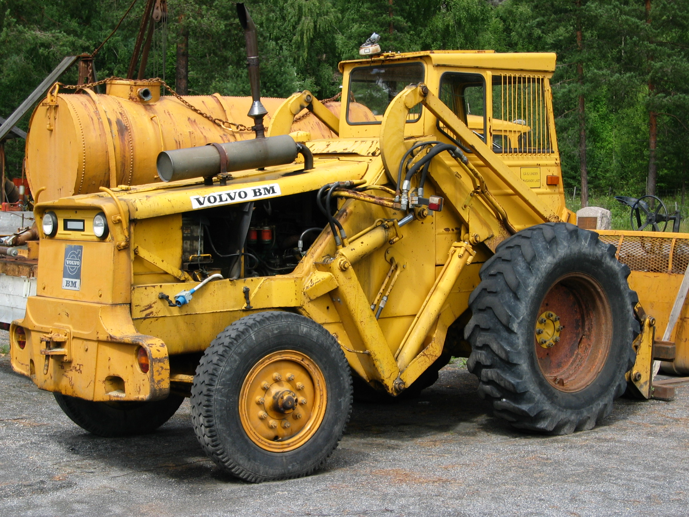 1976 Volvo BM (rear) loader at Buskerud Vegvesen Museum in Kongsberg, Norway on 2005-07-18. The signpost says "Type LM621, serial no 2635, weight 7200 kg".